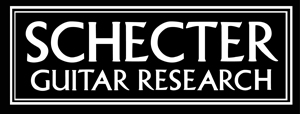 Company logo, Schecter Guitar Research.